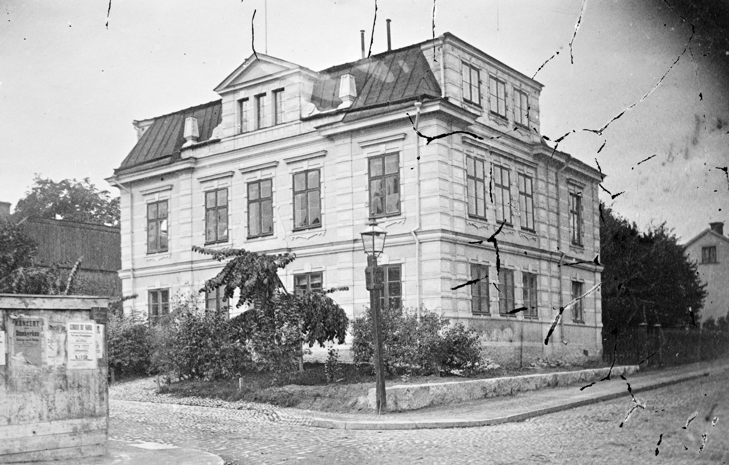 Smålands Nations, Uppsala. First nation house 1826-1893. Photo 1860 - 1882.